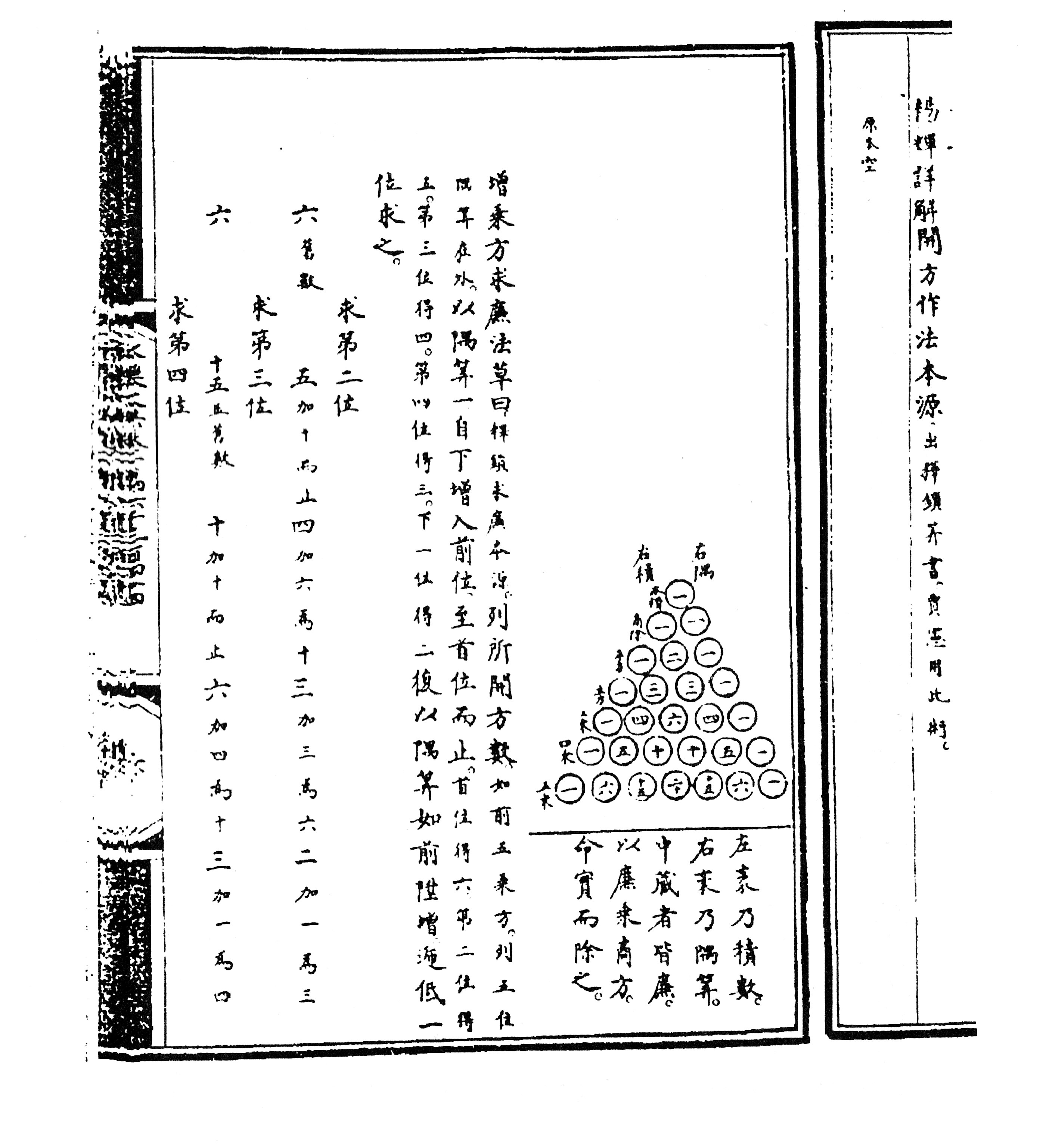 Yang Hui's work preserved in Yongle Encyclopedia